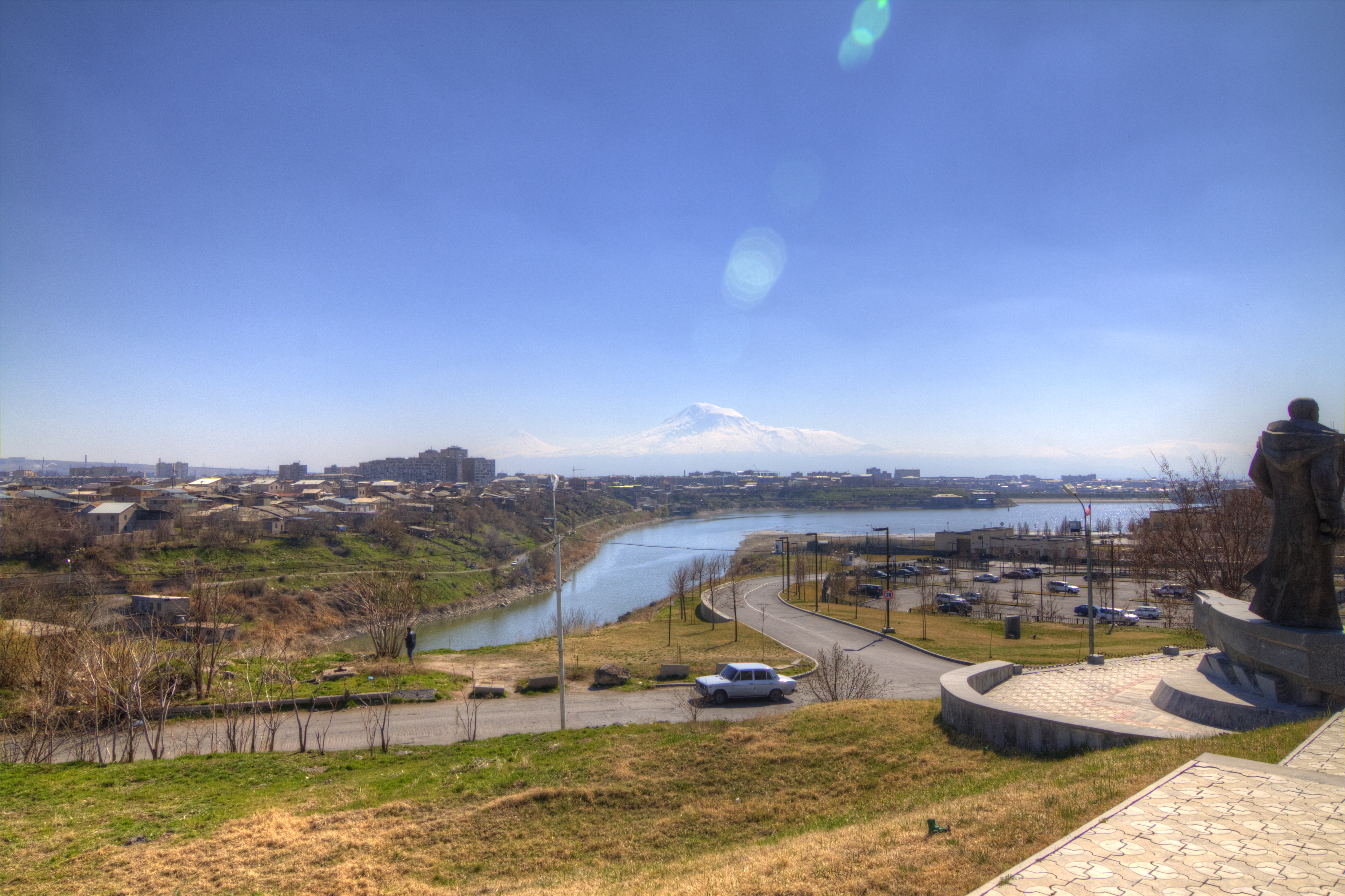 Lake Yerevan, an artificial lake in Yerevan, Armenia. The Embassy of the United States can be seen on the far right foreground. Mount Ararat (locally known as Masis) can be seen in the background.